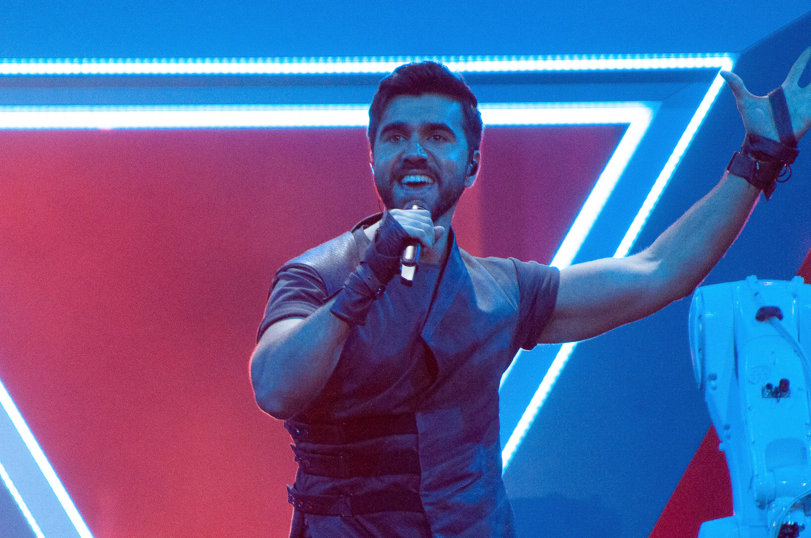 Chingiz representing Azerbaijan with the song "Truth" during a rehearsal before the grand final of the Eurovision Song Contest 2019 in Tel-Aviv.